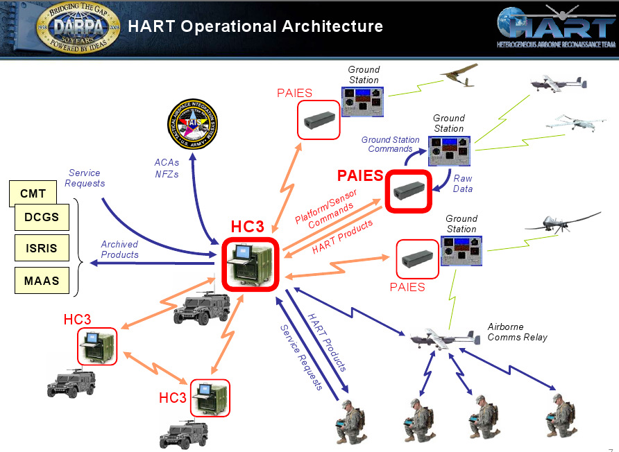 This is a drawing of the operational architecture of DARPA's Heterogeneous Aerial Reconnaissance Team (HURT) program, funded under the Information Processing Technology Office.